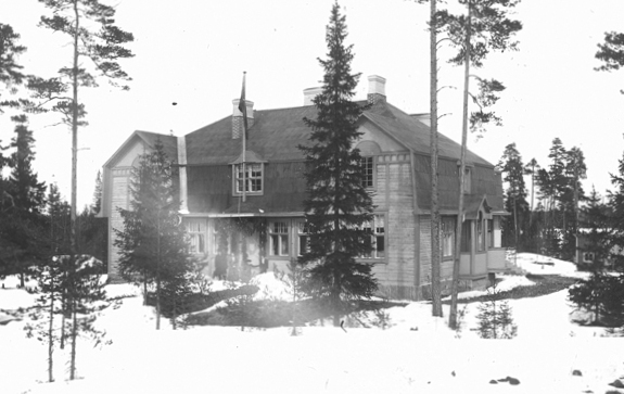 Villa Gahmberga in Kauniainen, Finland